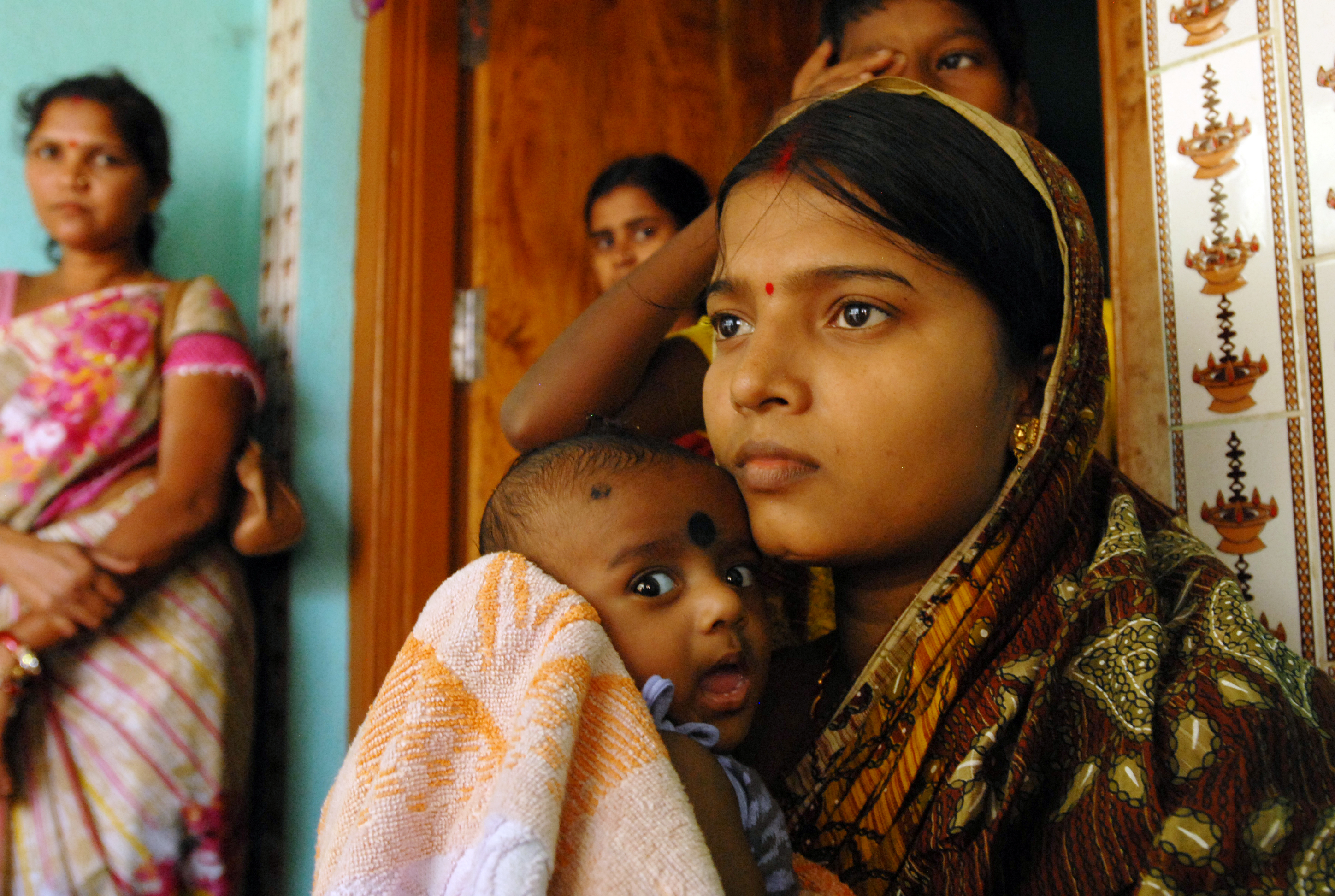 Britain is working with the Government of Odisha (Orissa), one of India's poorest states, and UNICEF to save the lives of thousands of mums and babies. The scheme has been so successful, 8 out of 10 mums now get vital ante and post natal care in Odisha. Swarna is one of them. She and her baby boy Satyasworup are back home from the neo-natal survival unit safe and well. He is one of 7,500 newborn babies who have been prevented from dying needlessly this year - and of the 250,000 Britain will help poor countries save over the next three years. Satyasworup will stay looked after in the system all year until he is even stronger and healthier. Background Britain is working with the Government of Odisha, one of India's poorest states, and UNICEF to save the lives of thousands of mums and babies. Find out more at